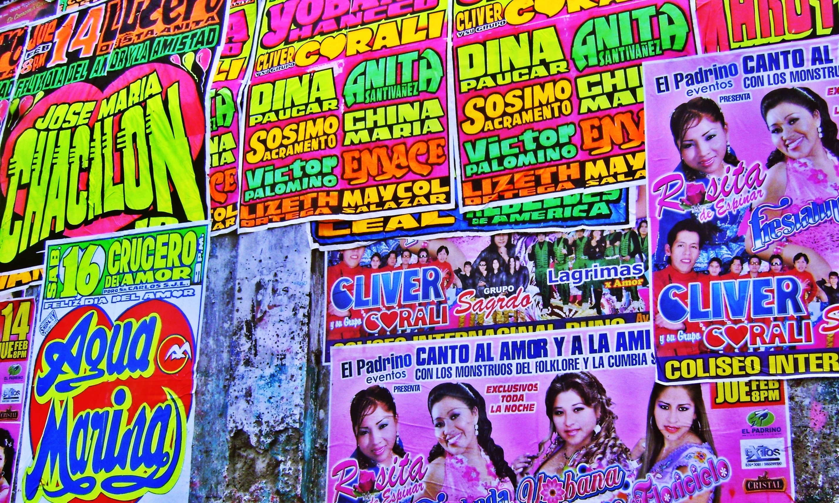 Chicha